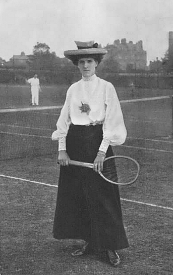 British tennis player Dorothea Lambert Chambers in 1906